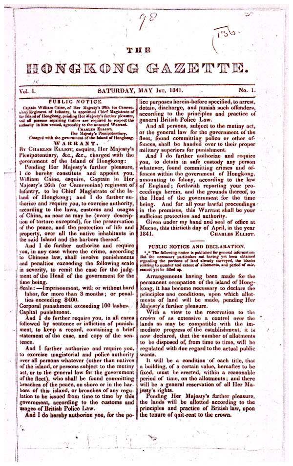 The Hong Kong Gazette Vol. I No. 1 1st May, 1841. 中文（香港）: 香港政府憲報，1841年5月1日第1號。